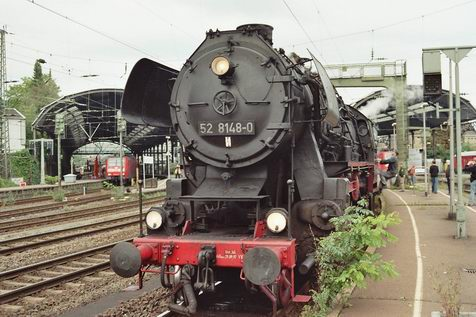 photographed by me